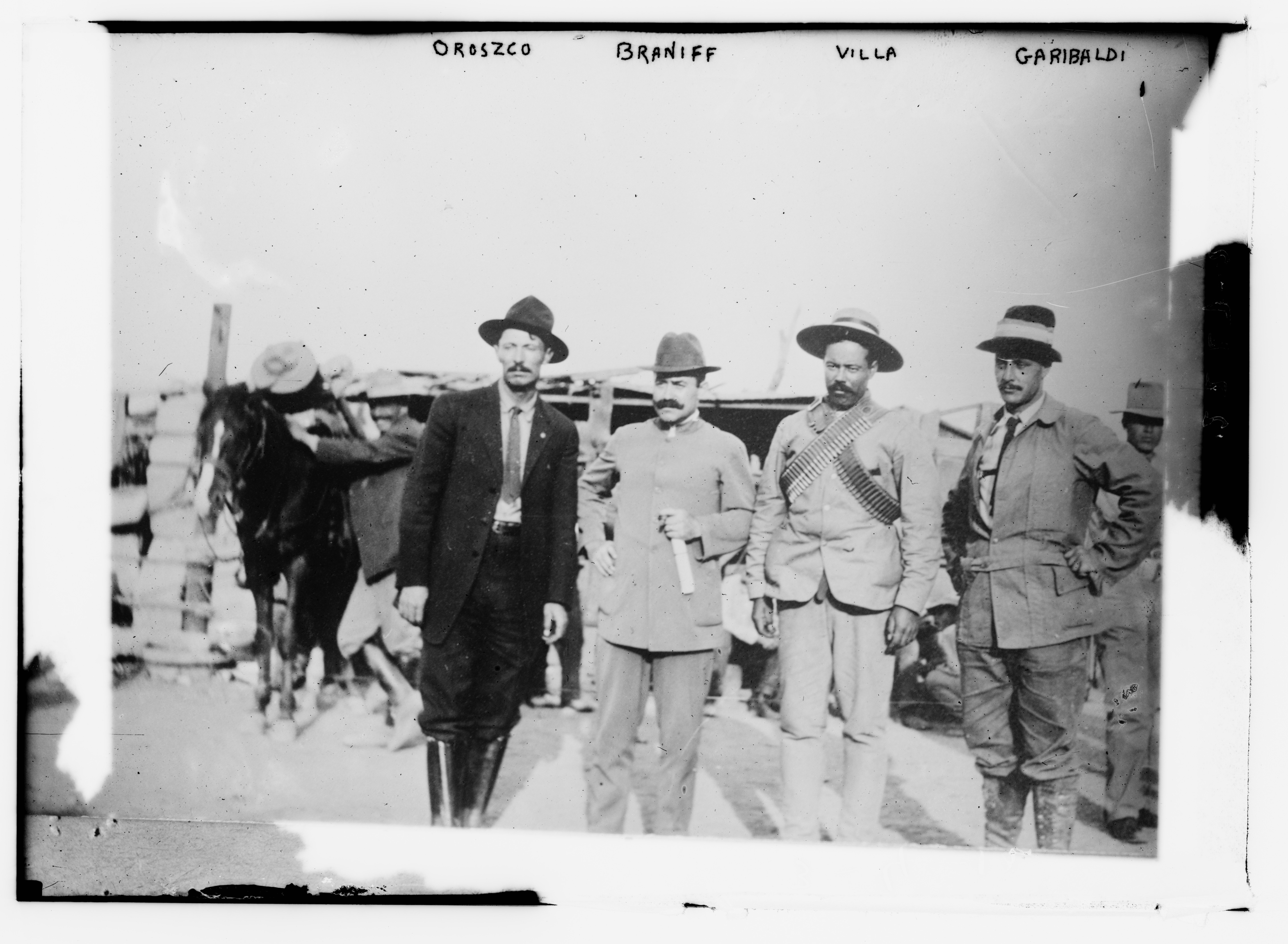 Bain News Service,, publisher. - Oroszco; Baniff; Villa; Garibaldi - [between 1910 and 1915] - 1 negative : glass ; 5 x 7 in. or smaller.